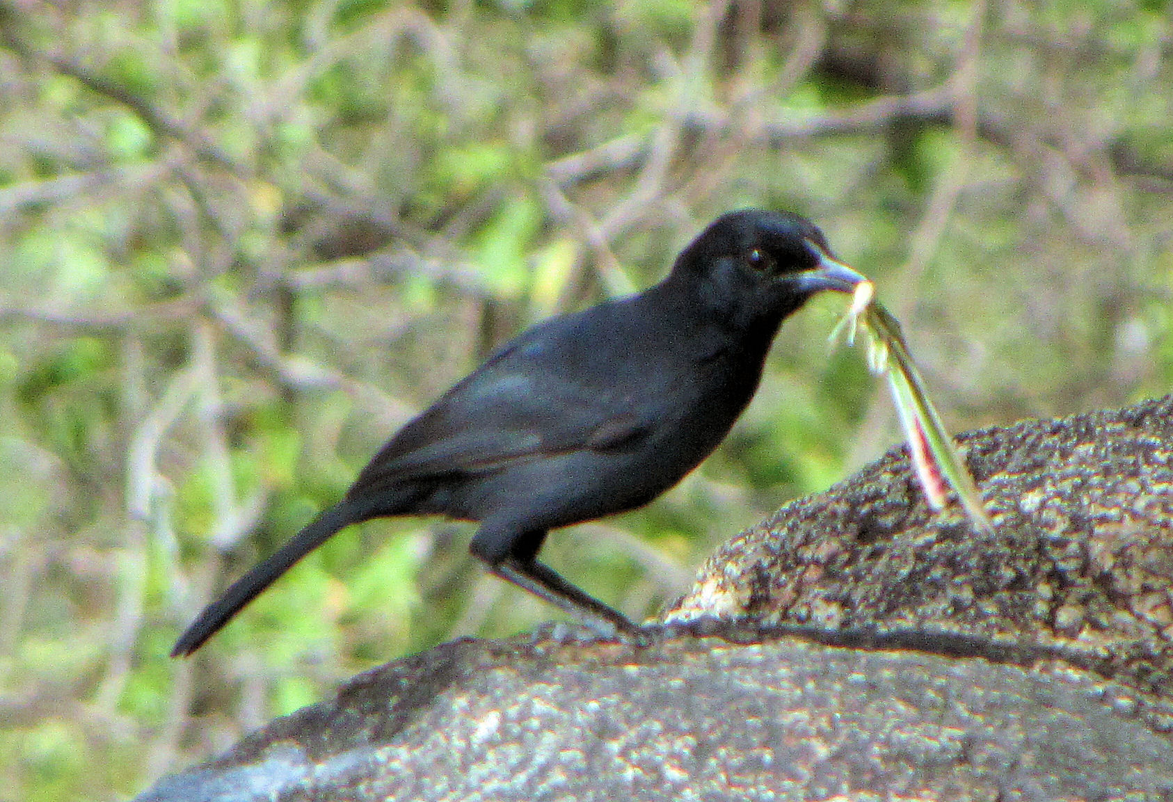 Slate-colored Boubou (Laniarius funebris), Serengeti, Tanzania